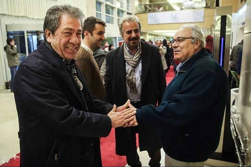 First day of 35th Fajr International Film Festival